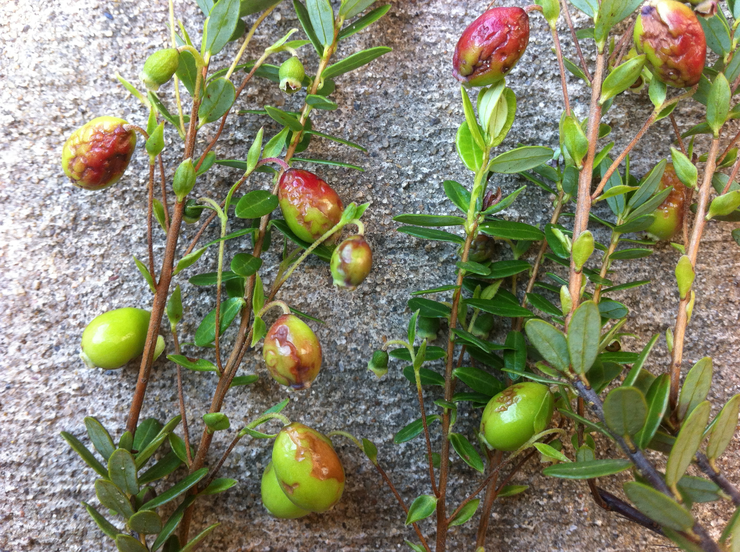 Symptom of TSV on cranberry (Vaccinium macrocarpon) found on a cranberry marsh in central Wisconsin. The berries are severely damaged by the presence of the virus. Cranberries are a uniformly red berry. The cranberries in this photo are scarred and discolored.